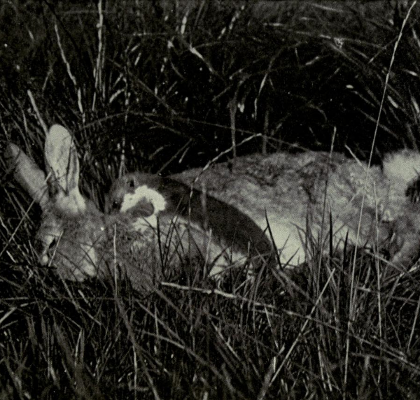 Least weasel killing a European rabbit